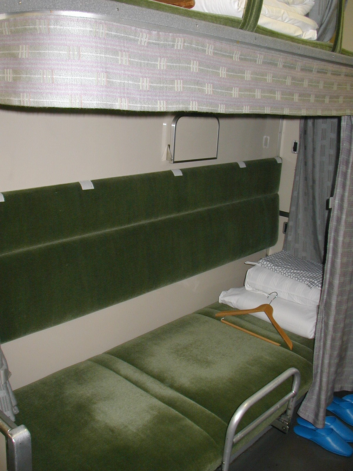 The inside of the Japanese Train GINGA's sleeping car, B-class sleeper berth.